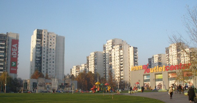 Immo centar shopping centre and Block 64 apartment blocks